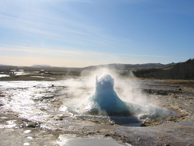 Strokkur, a geyser in Iceland, in the initial moments of an eruption. Photo taken by me in March 2006. Original source and more photos